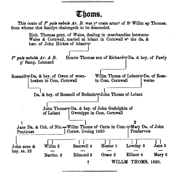 photograph of the entry from the 1874 edition of the 1620 Heraldic Visitation of Cornwall for the Thomas and Thomas family, from Vivian's 1874 edition, published by the Harleian Society